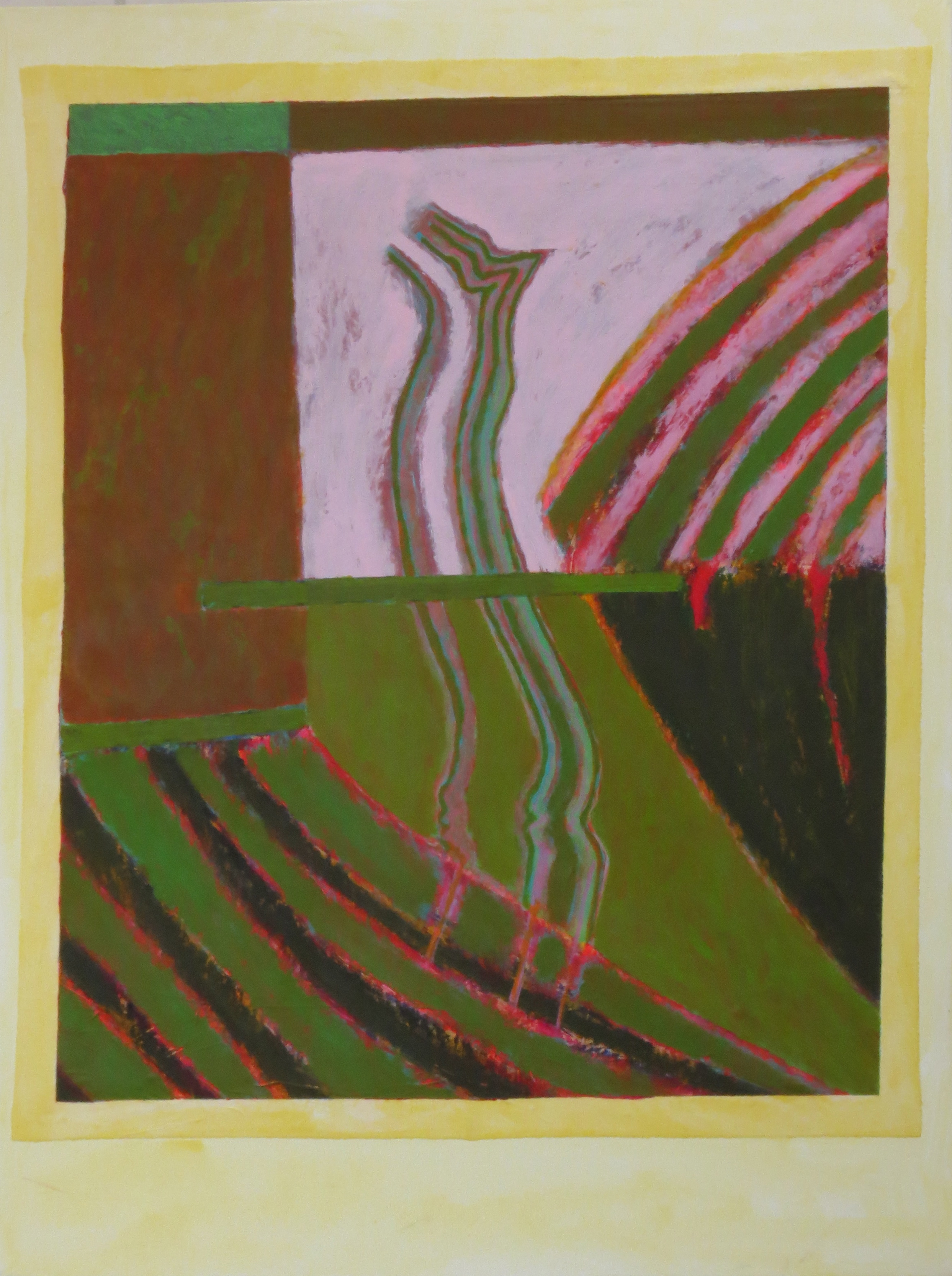 2011, acrylic on canvas by Carlos Loarca, the muse of the painting is the mythical dog "EL Cadejo"